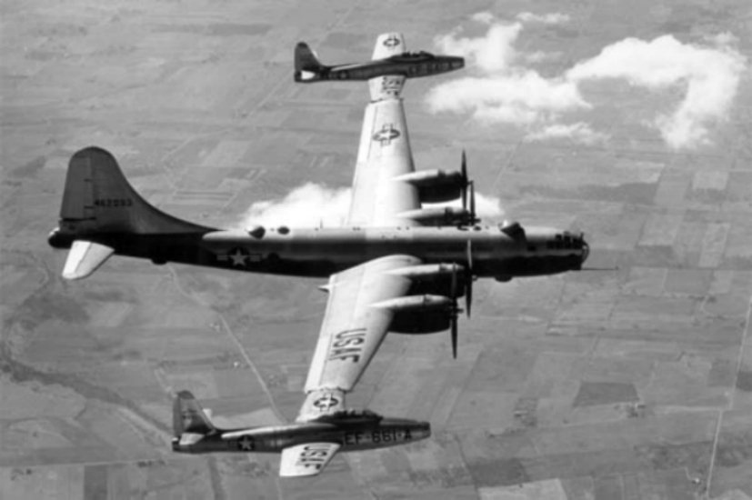 Project MX-1016 Tip Tow: A Boeing ETB-29A (s/n 44-62093) with two Republic EF-84D Thunderjet fighters on 20 October 1950. This photo is NOT of Project Tom Tom as the photo title states. Project Tom Tom utilized a Convair B-36 and two Republic RF-84F Thunderflash aircraft, and was also a "tip tow" experiment. One of the more interesting experiments undertaken to extend the range of the early jets in order to give fighter protection to the piston-engined bombers, was the provision for in-flight attachment/detachment of fighter to bomber via wingtip connections. One of the several programs during these experiments was MX106 done with a B-29 mother ship and two F-84D "children", and was code named "Tip Tow" (not Tom Tom as stated above) A number of flights were undertaken, with several successful cycles of attachment and detachment, using, first one, and then two F-84s. The pilots of the F-84s maintained manual control when attached, with roll axis maintained by elevator movement rather than aileron movement. Engines on the F-84s were shut down in order to save fuel during the "tow" by the mother ship, and in-flight engine restarts were successfully accomplished. The experiment ended in disaster during the first attempt to provide automatic flight control of the F-84s, when the electronics apparently malfunctioned. The left hand F-84D-1-RE 48-641 rolled onto the wing of the B-29, and the connected aircraft both crashed with loss of all onboard personnel. The pilot of the right-hand F-84D-1-RE 48-661 wrote of the Tip-Tow experiments in an article entitled Aircraft Wingtip Coupling Experiments published by the Society of Experimental Test Pilots. The photo above was taken during the longest "hookup" on 20 October 1950.